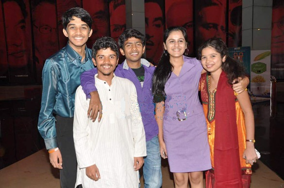 The star cast of the film Balak Palak (2013) at the screening of the film.